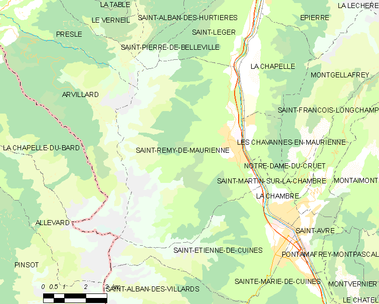 Map of French municipality Saint-Rémy-de-Maurienne